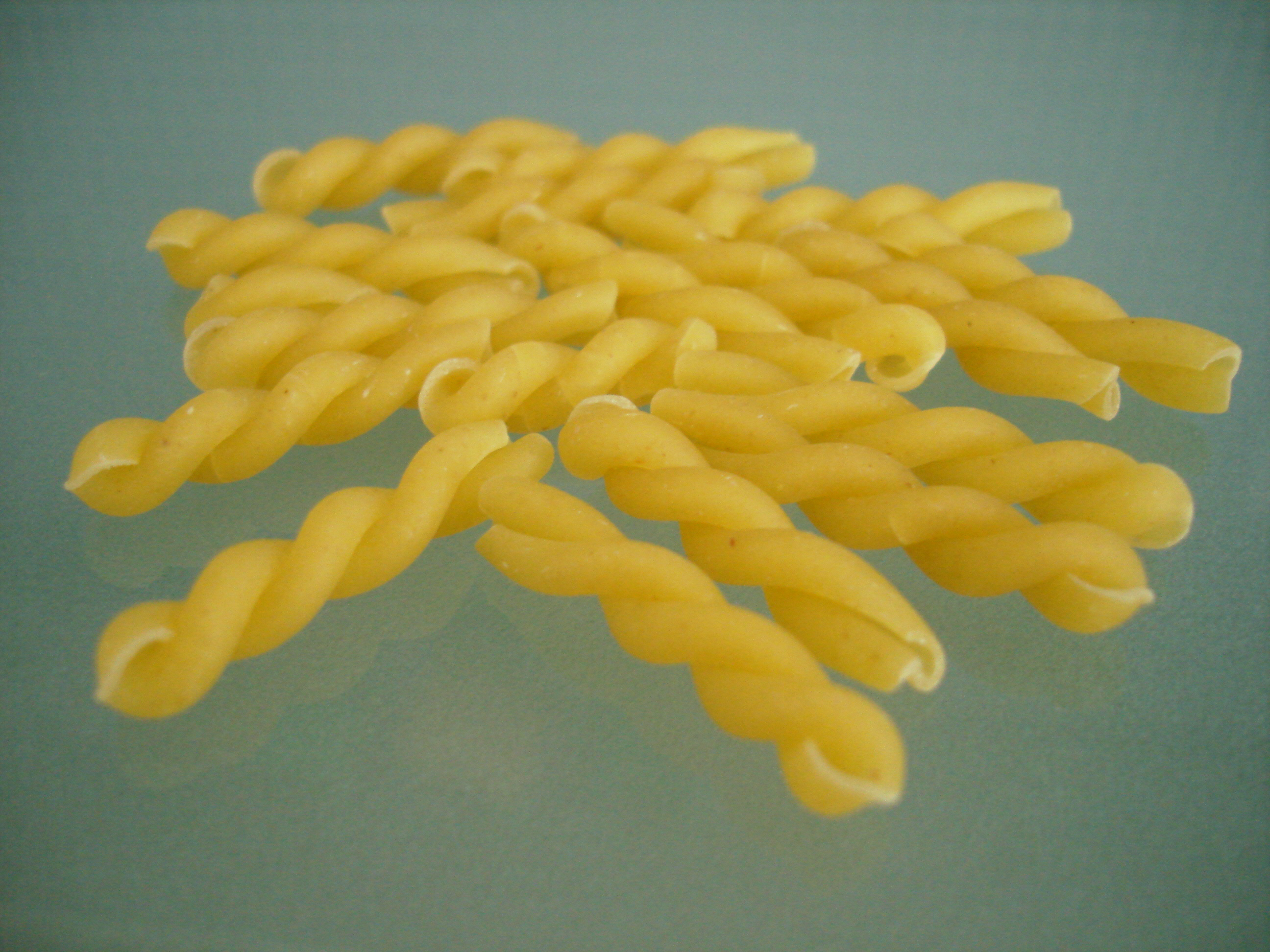 Gemelli